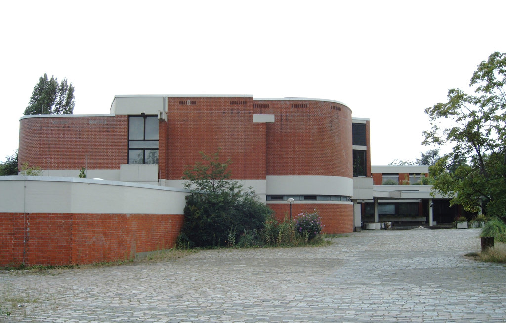 Church in Mannheim-Vogelstang